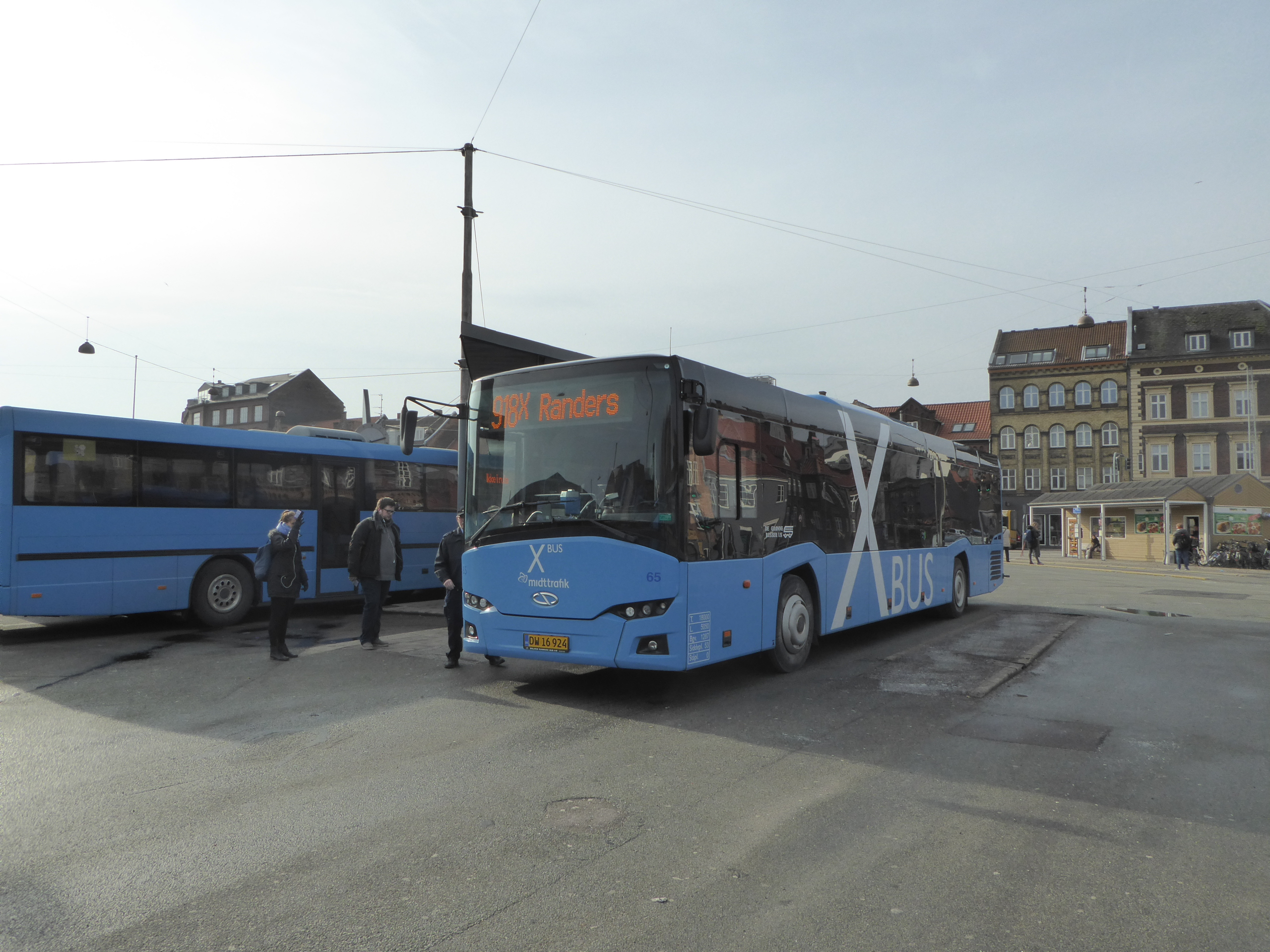 Midttrafik bus line 918X at Aarhus Rutebilstation in Denmark.